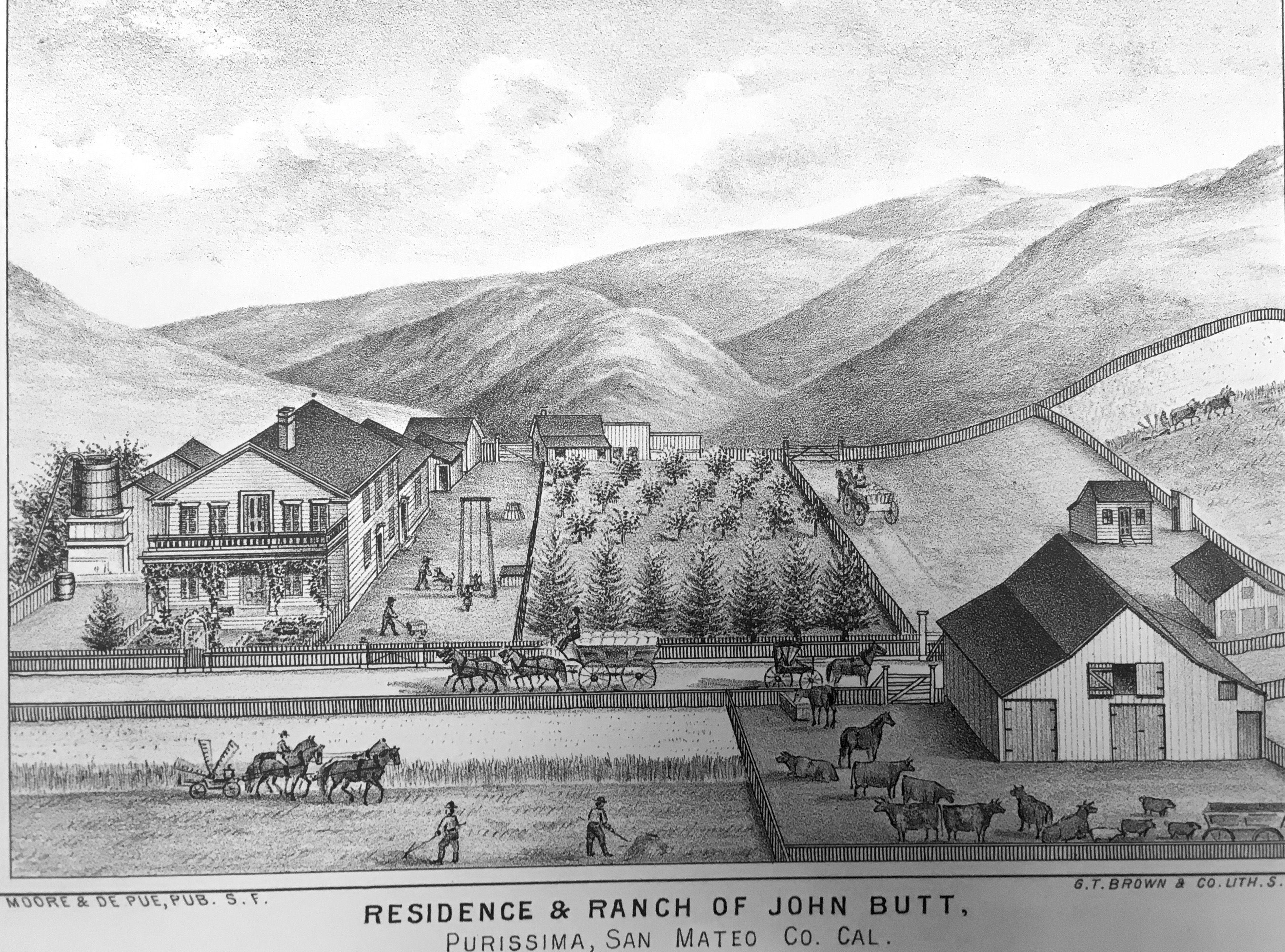 Purissima was founded in an agricultural area in the early 1850s